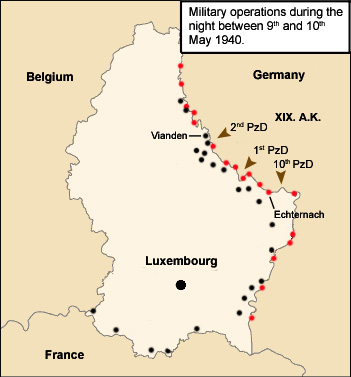 Invasion of Wehrmacht on Luxembourg 9th may 1940